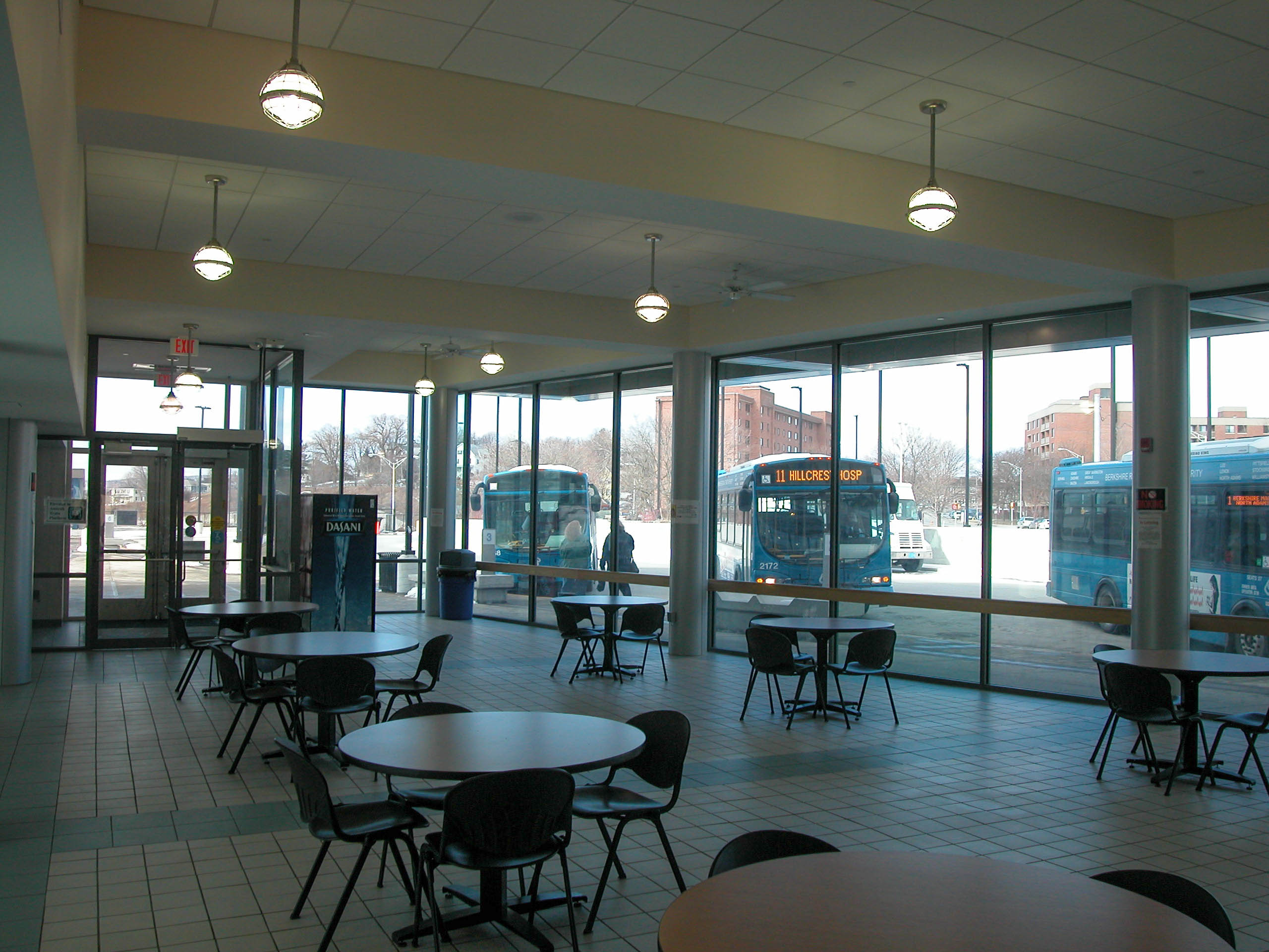 Interior of the Joseph Scelsi Intermodal Transportation Center in Pittsfield, Massachusetts, with Berkshire Regional Transit Authority buses ooutside